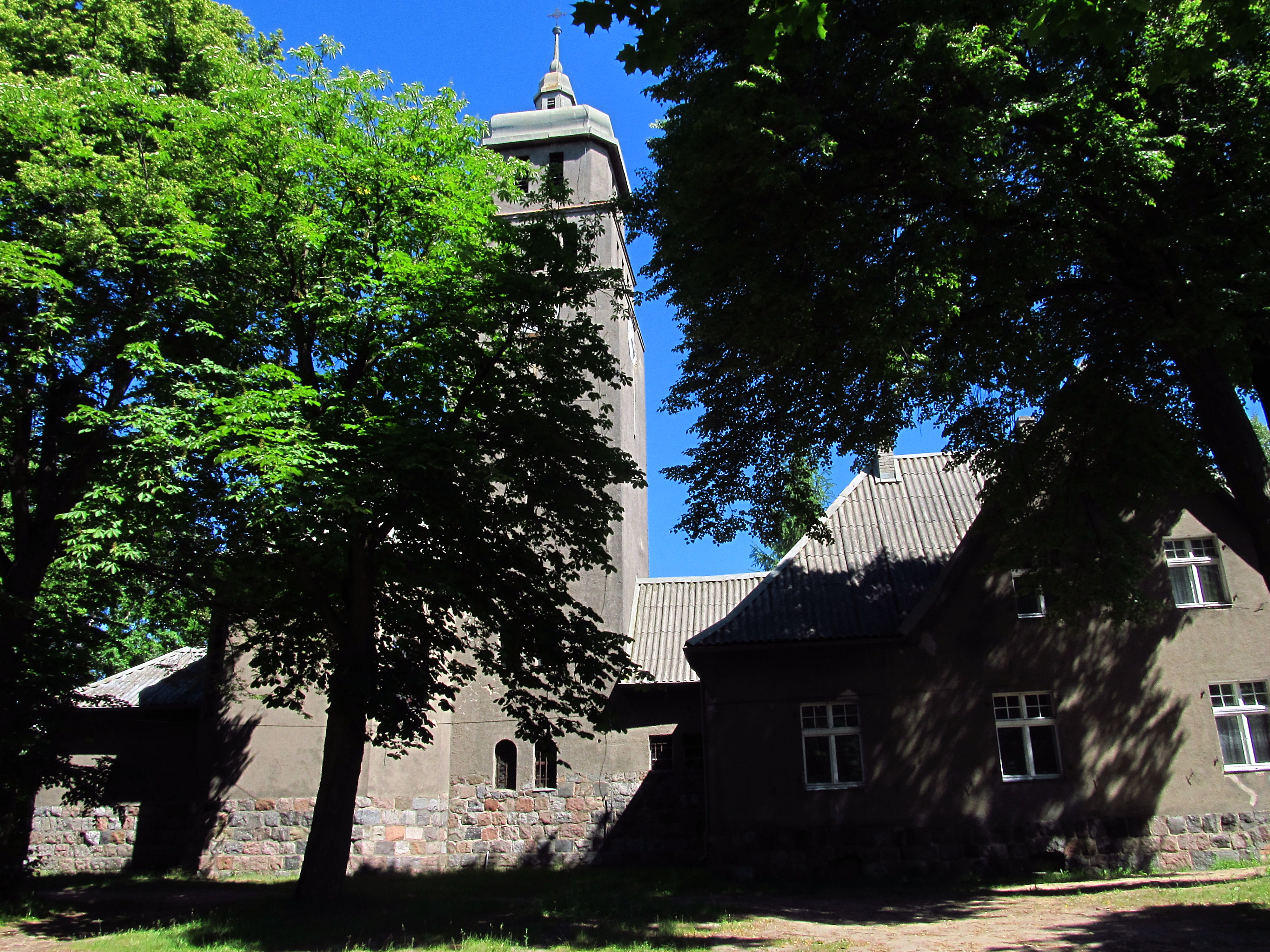 Parish Church in Piece, Poland